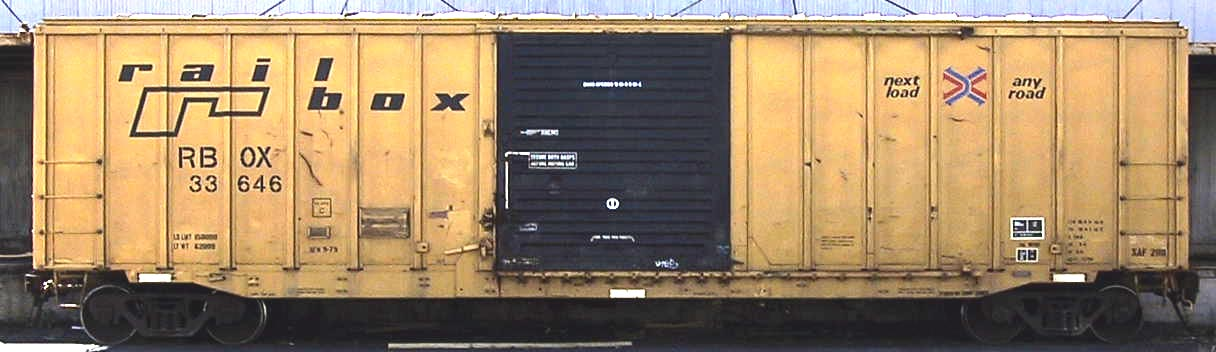 Picture of typical railbox boxcar - Mike Chapman